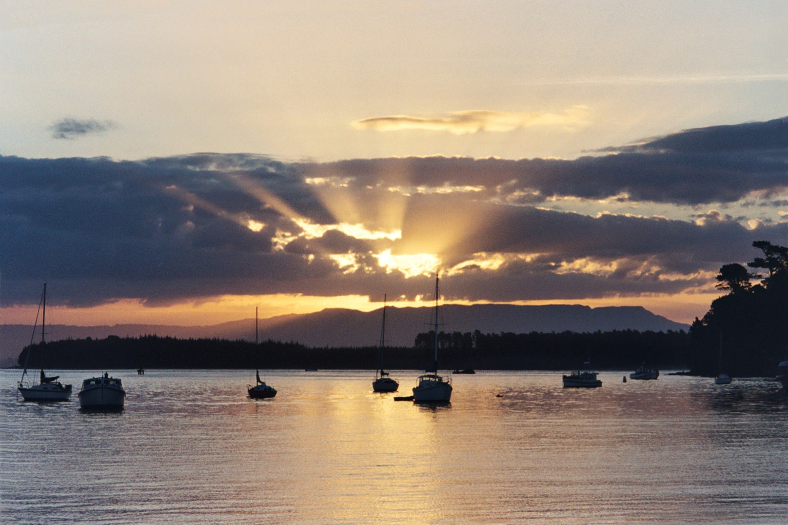 View from Tauranga Harbour to Kaimai Ranges